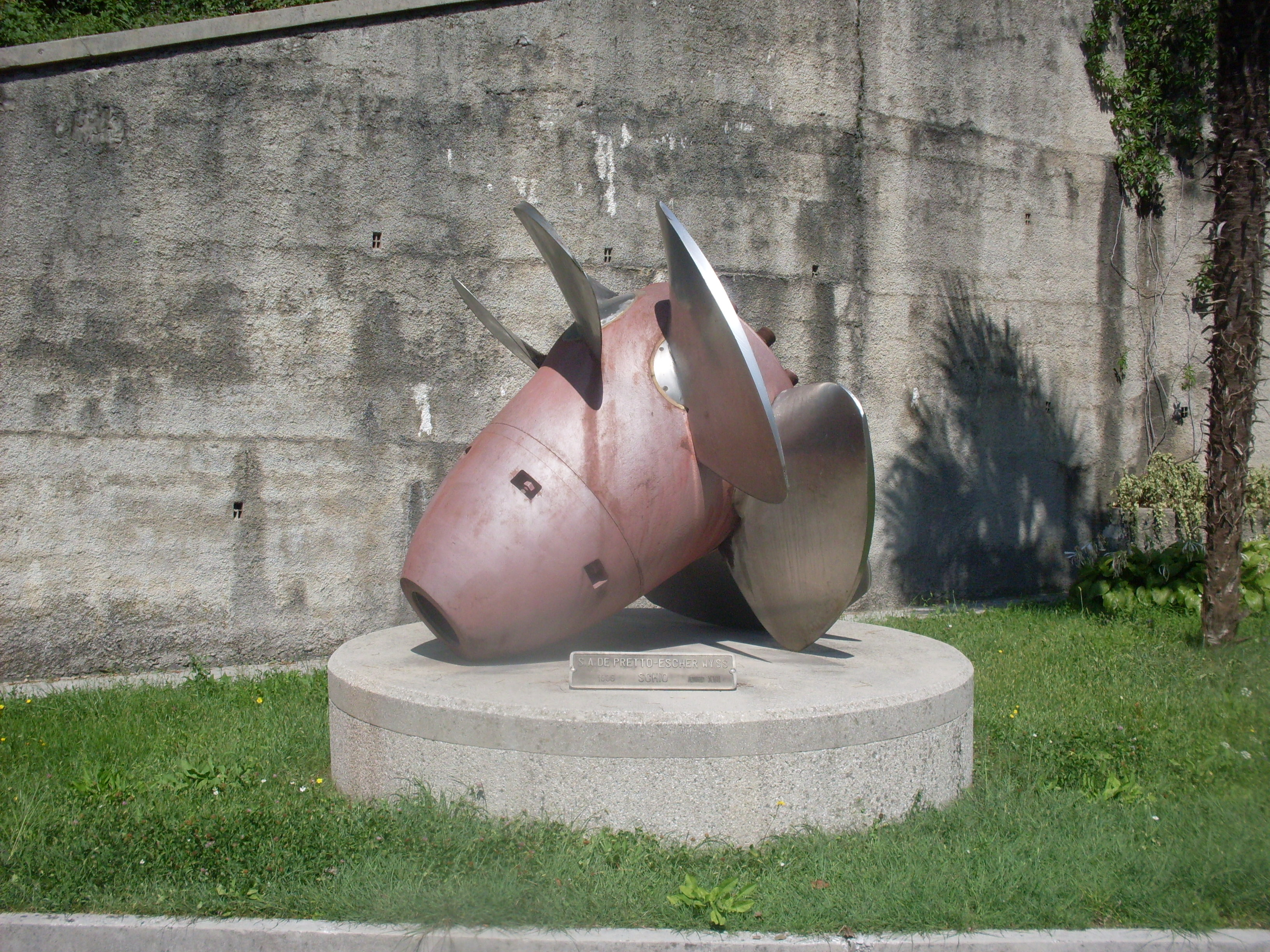 Kaplan turbine, exhibited in front of the engine room of the Plave 1 hydro power plant in Plave (north of Nova Gorica). The turbine was made in 1939 by the Swiss company Escher-Wyss, more precisely, by its factory in Schio, Italy. Other technical data are unknown.